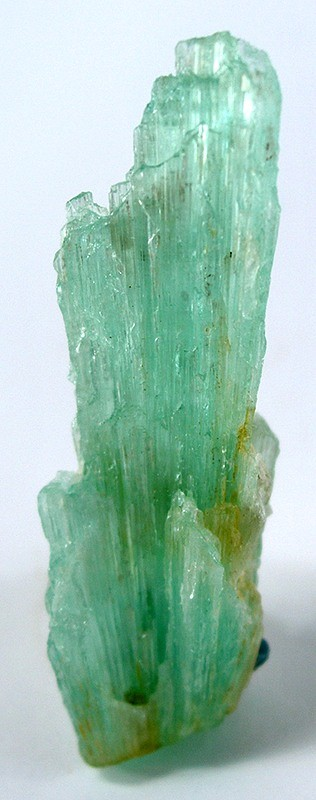 Metavauxite Locality: Siglo Veinte Mine (Siglo XX Mine; Llallagua Mine; Catavi), Llallagua, Rafael Bustillo Province, Potosí Department, Bolivia (Locality at ) Size: 4.2 x 1.2 x 1.1 cm. Certainly the rarest member of the "vauxite" family, this is an hydrated, iron, aluminum, phosphate hydroxide. Metavauxite was found at its best by Mark Bandy in the mid-1900s and so far as I know nothing of this magnitude has come out since, plus it’s comparable to a specimen from his collection in the LA County Museum. It is simply off the charts for the species, both colorful and simply HUGE. The crystal is lustrous and translucent with a pleasing pastel green color.